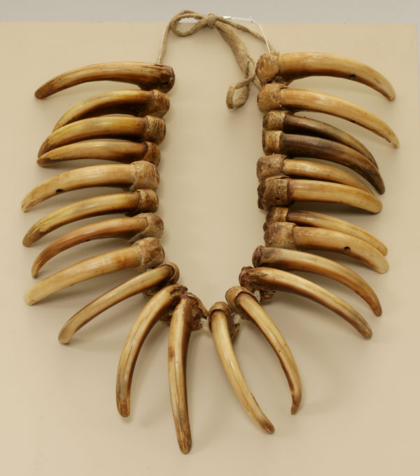 Grizzly Bear Claw Necklace Plateau c 1900 The grizzly bear is considered powerful in the natural world, and in the spirit world of the Columbia Plateau peoples. This necklace of grizzly bear claws, strung on a buckskin tie, symbolizes both the personal story of its owner and the spiritual significance associated with this remarkable animal. Bear claw (Ursus arctos), buckskin. L. 45 cm Nez Perce National Historical Park, NEPE 1990